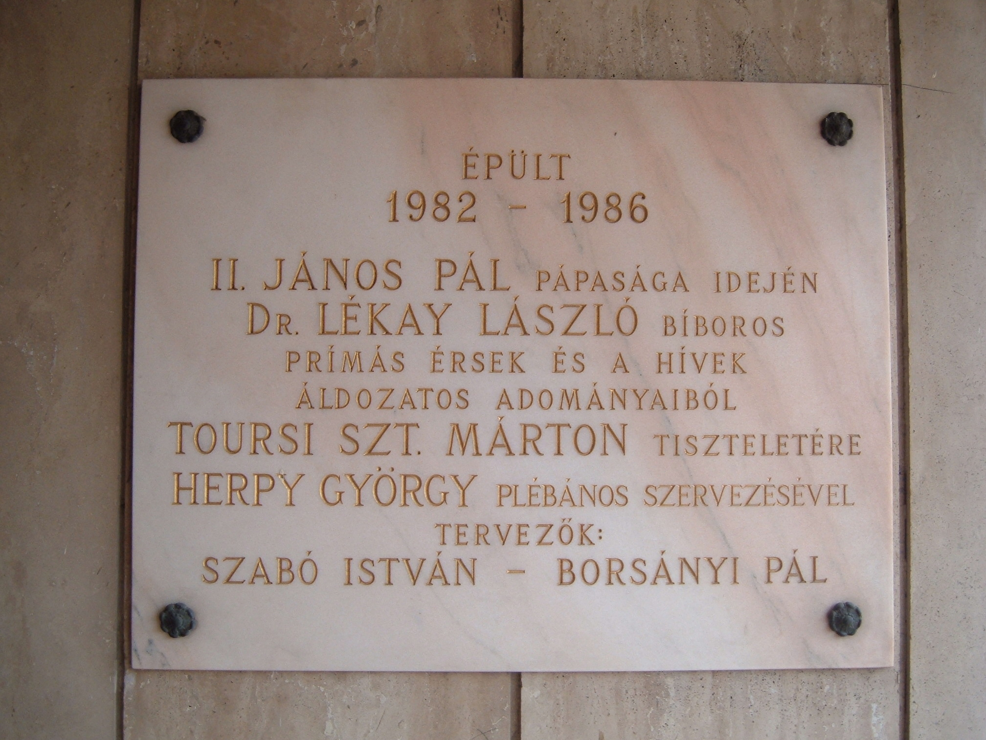 Memorial plaque on the Church of St Martin of Tours Budapest